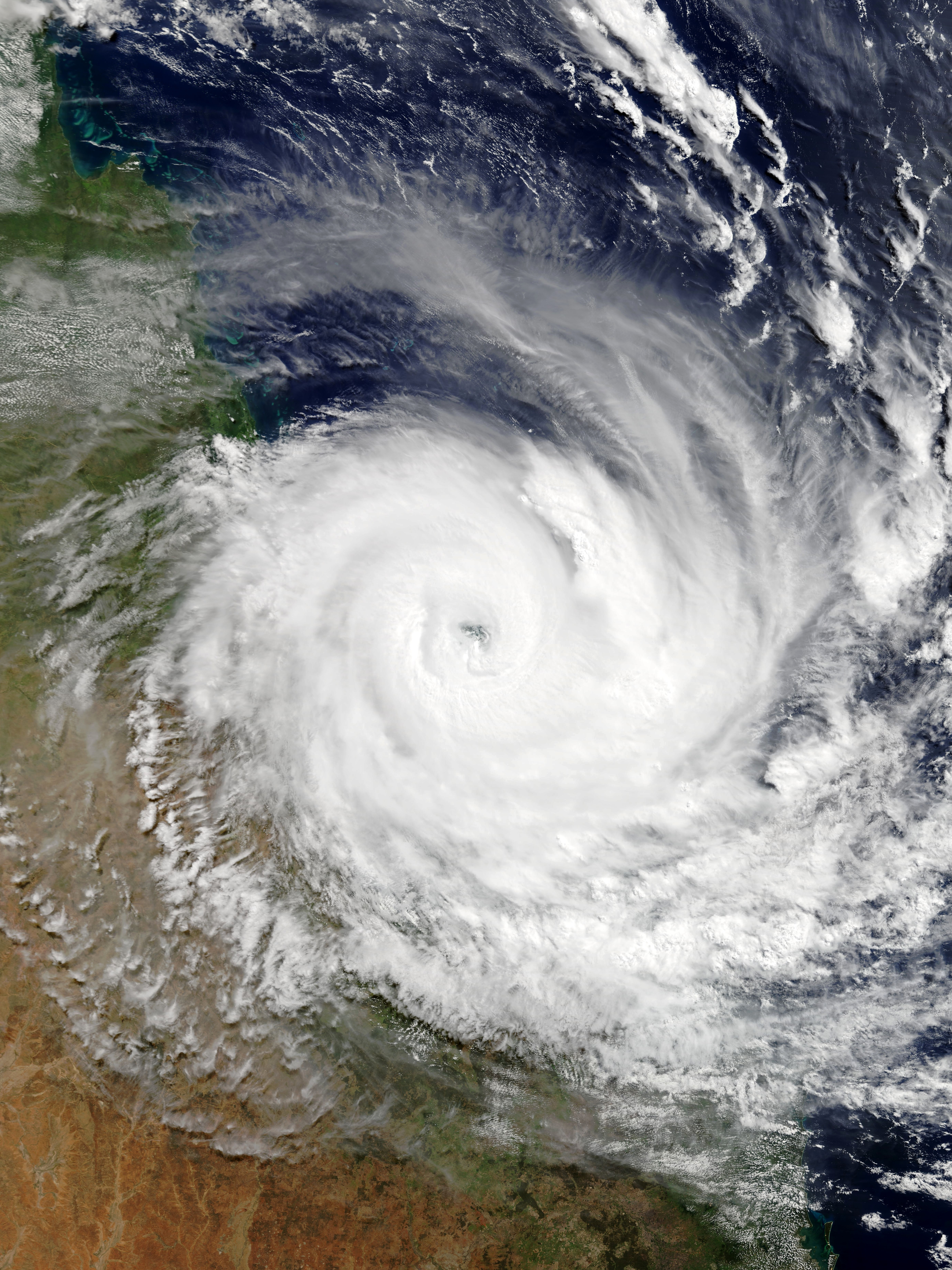 Severe Tropical Cyclone Debbie about to make landfall over Queensland at peak intensity early on 28 March 2017.